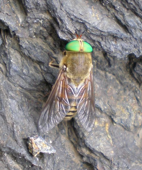 Near Canillo, Andorra.